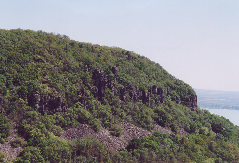 Badacsony mountain, Hungary, aerial photography